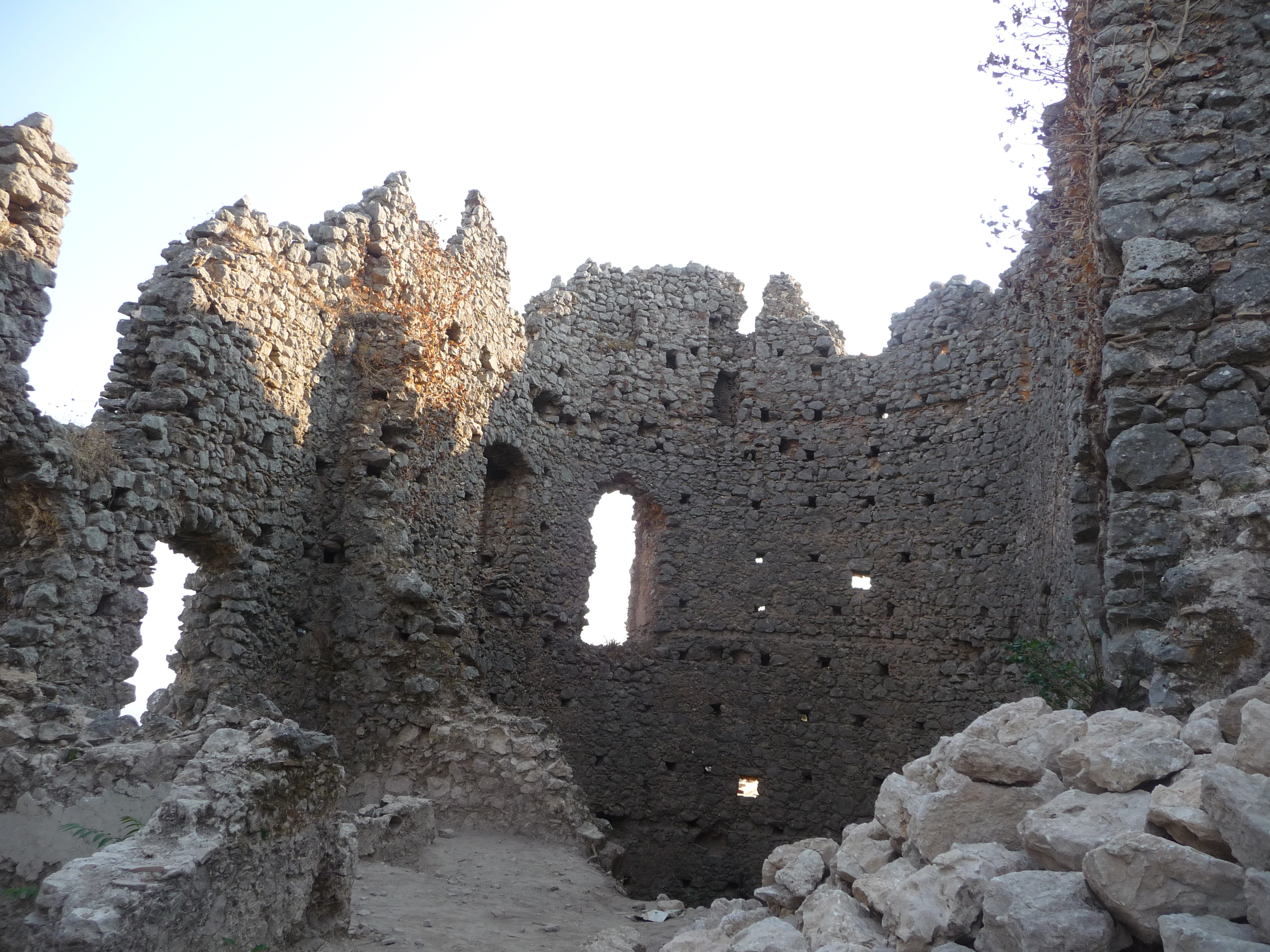 Inner sight of the Norman castle, near Stilo (italy)